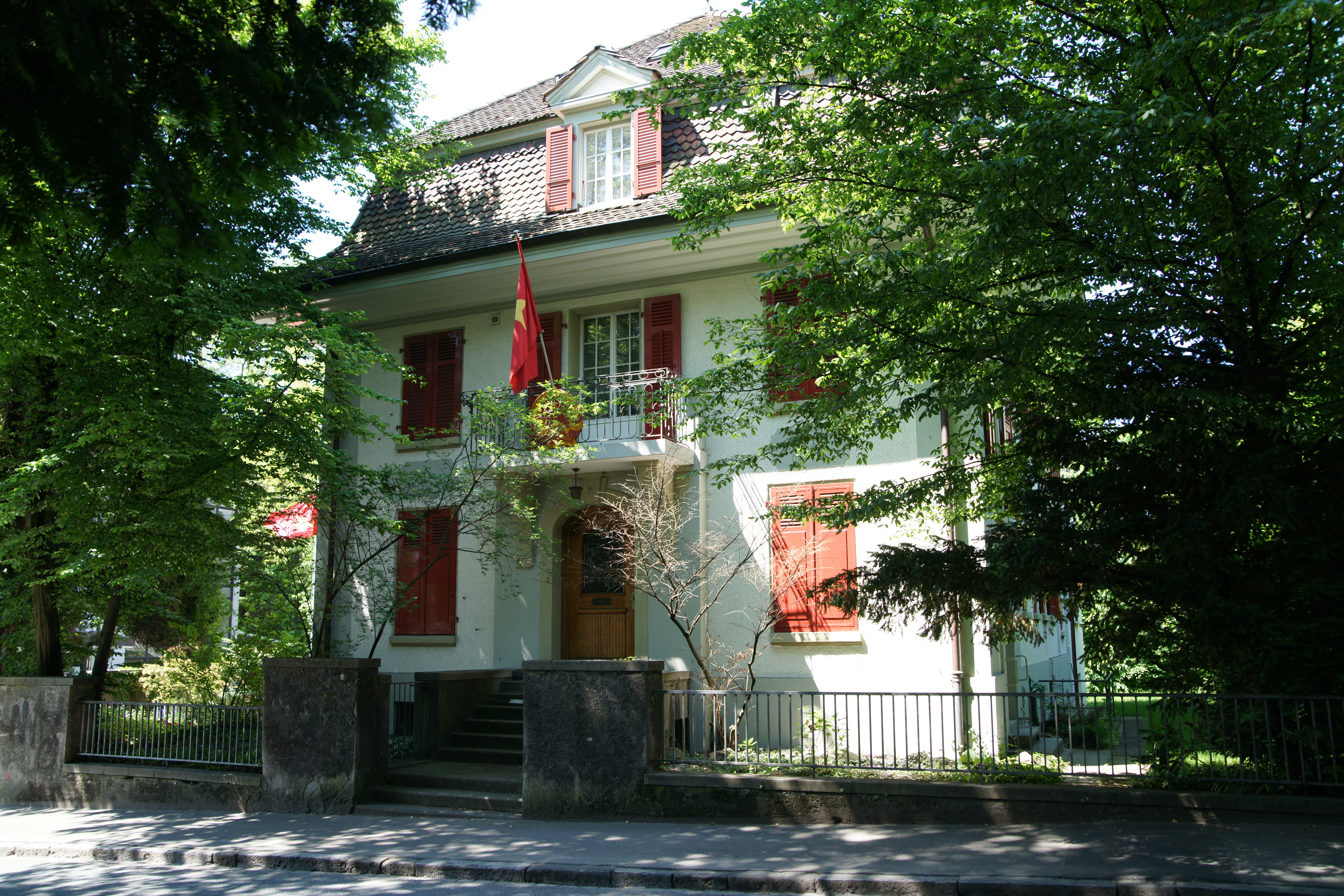 Embassy of Vietnam on Schlösslistrasse 26, Bern, Switzerland.